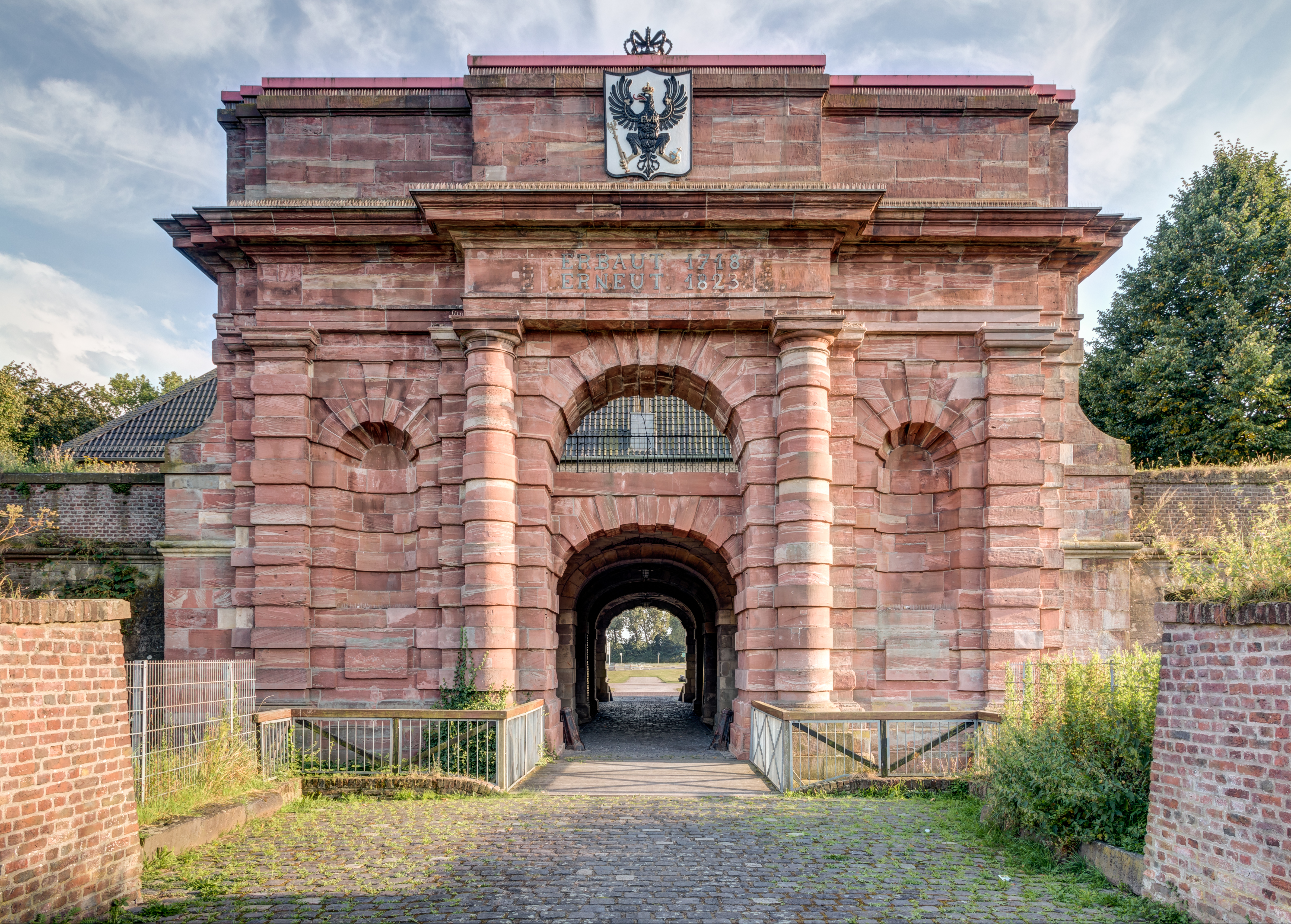 Citadel in Wesel, North Rhine-Westphalia, Germany This image shows a heritage building in Germany, located in the North Rhine-Westphalian city Wesel (no. 4).